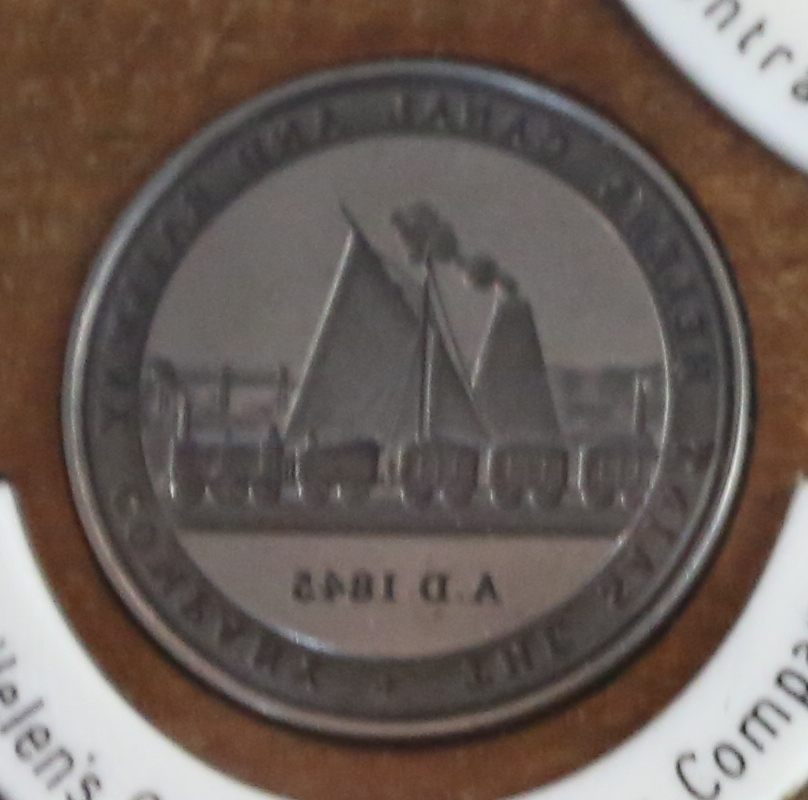 seal of St Helen's Canal & Railway Company